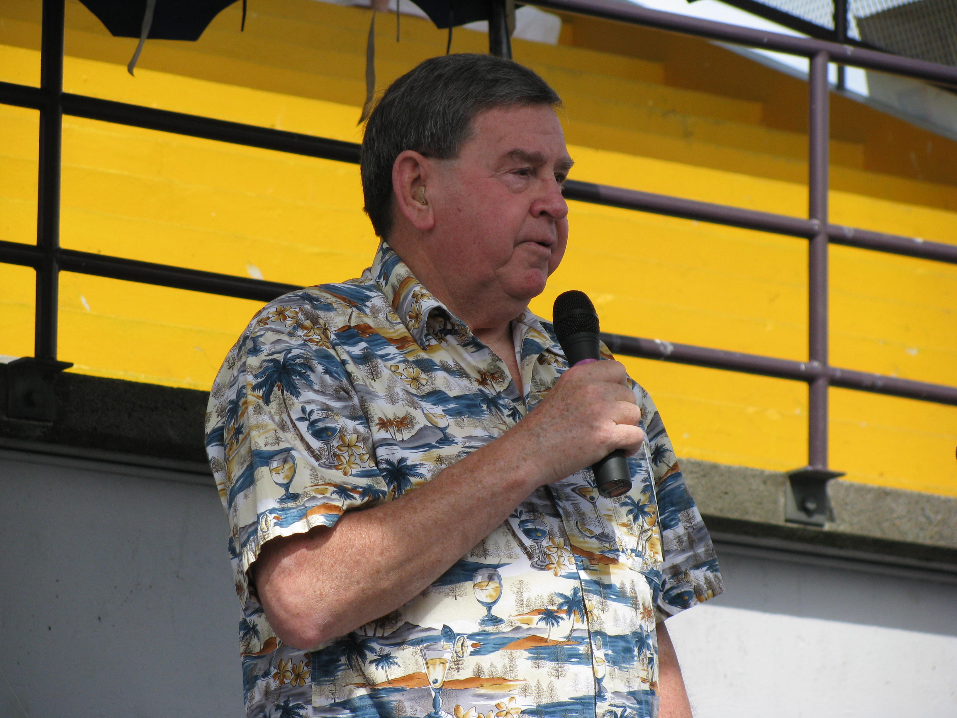 Vancouver Mayor Royce Pollard at the American Cancer Society Relay For Life In West Clark County, WA.